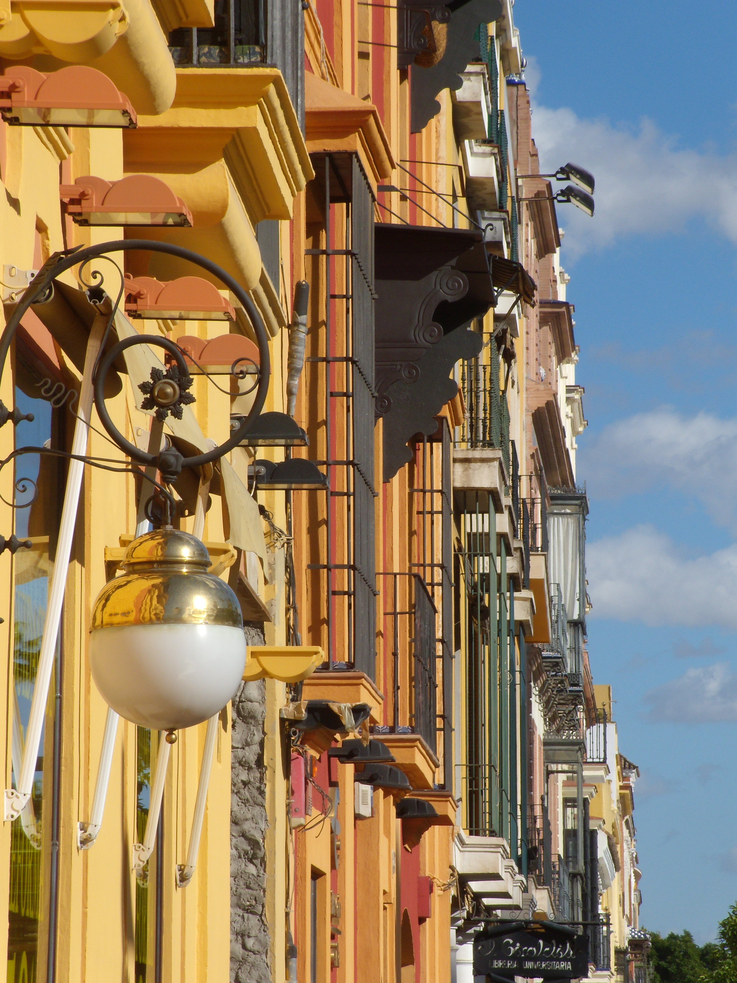 Buildings of San Fernando Street, Sevilla, Spain